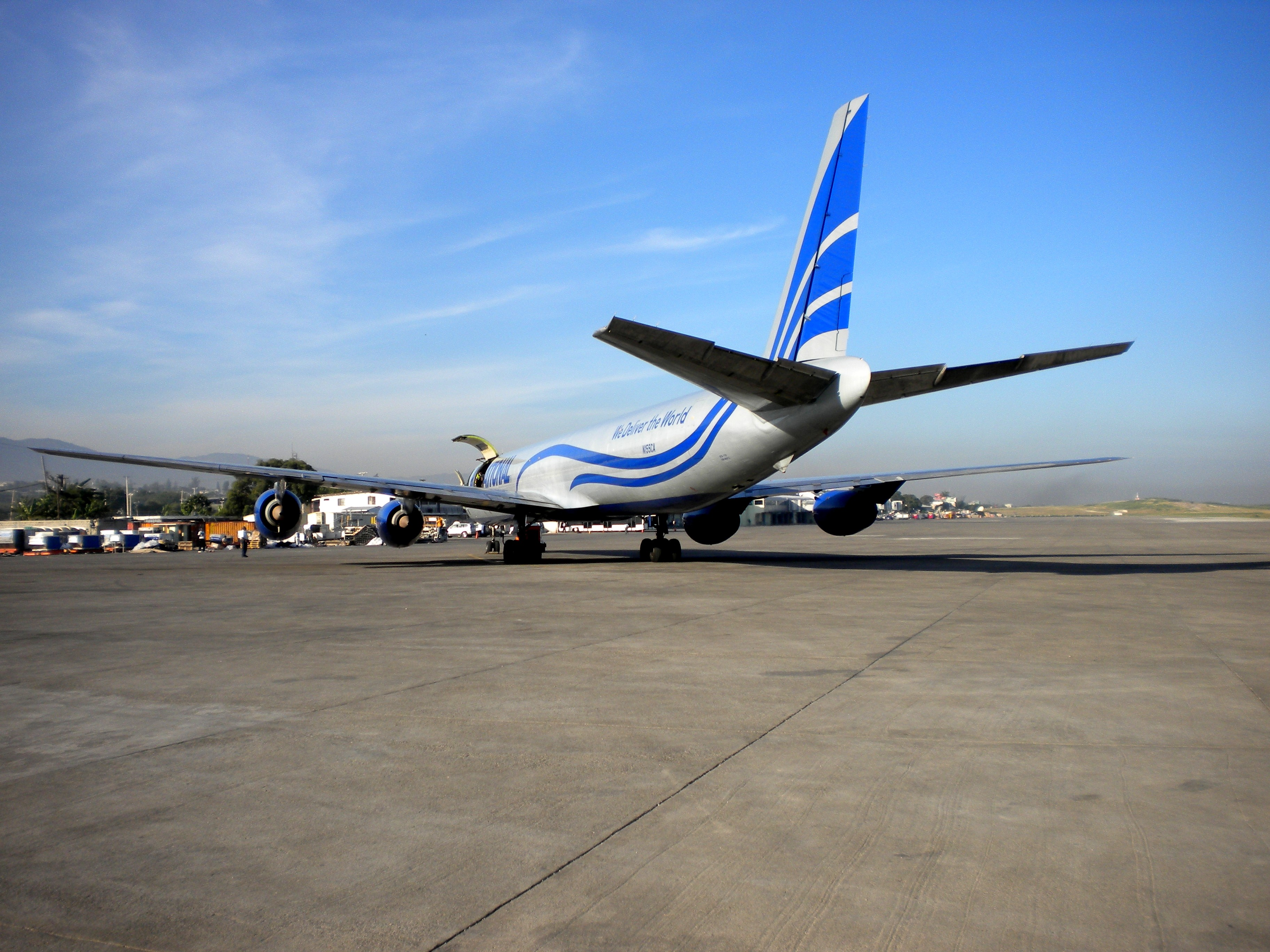 National Airlines cargo at Port-au-Prince International Airport